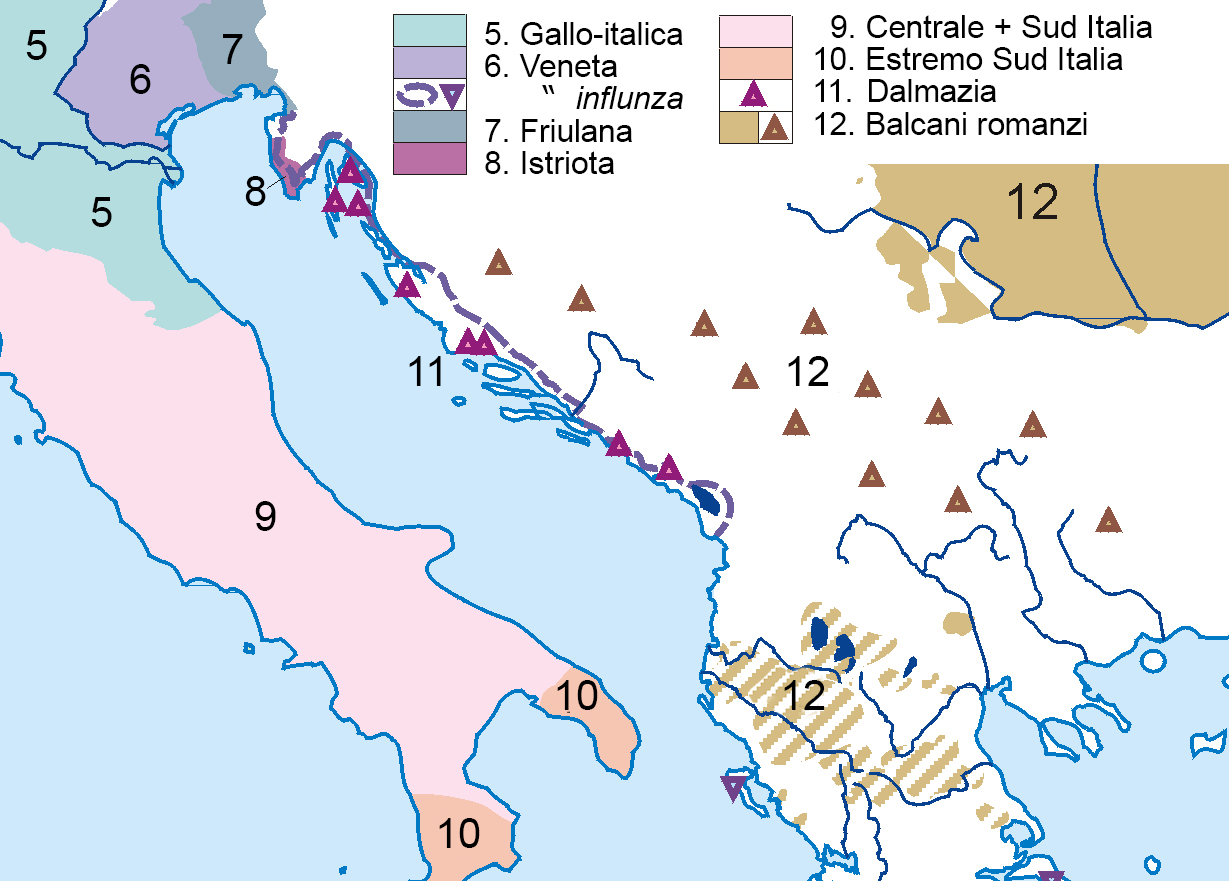 Dalmatian language in XIV century